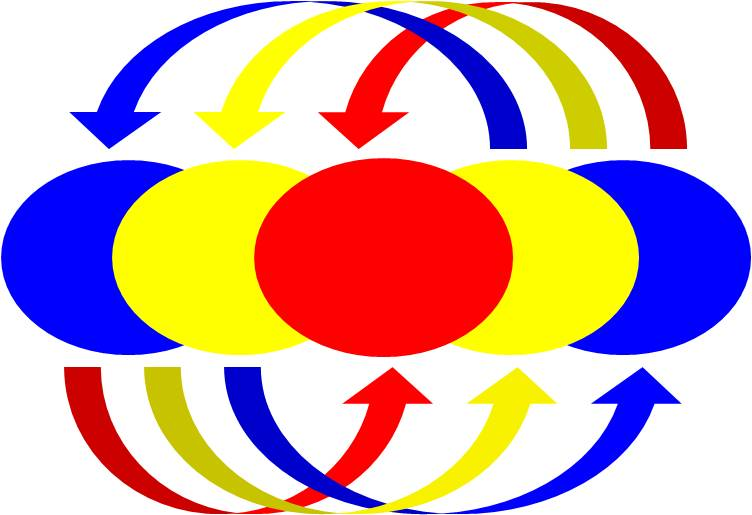 Alternate History Image can be used as a tag or symbol for those interested and engaged in alternate history activities. Each sphere represents an alternate (or alternative) view of historical events with each arrow representing different ideas or views, and how those alternative concepts affect other views or versions of these events. The center (red) sphere represents reality in the real world, while the other spheres represent an alternate reality in "parallel" worlds.